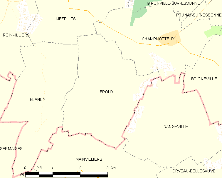 Map of French municipality Brouy